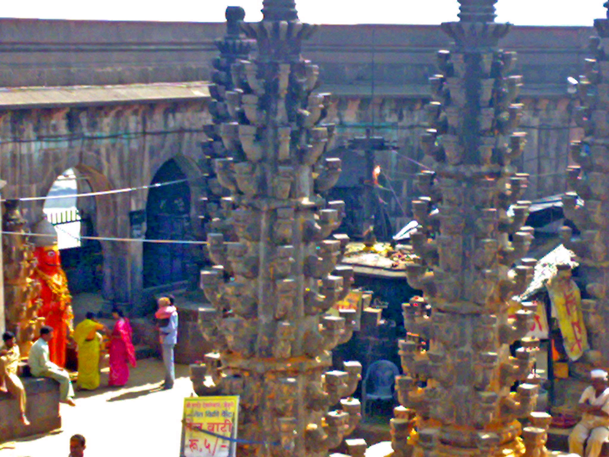 JENJURI Khandoba tempel